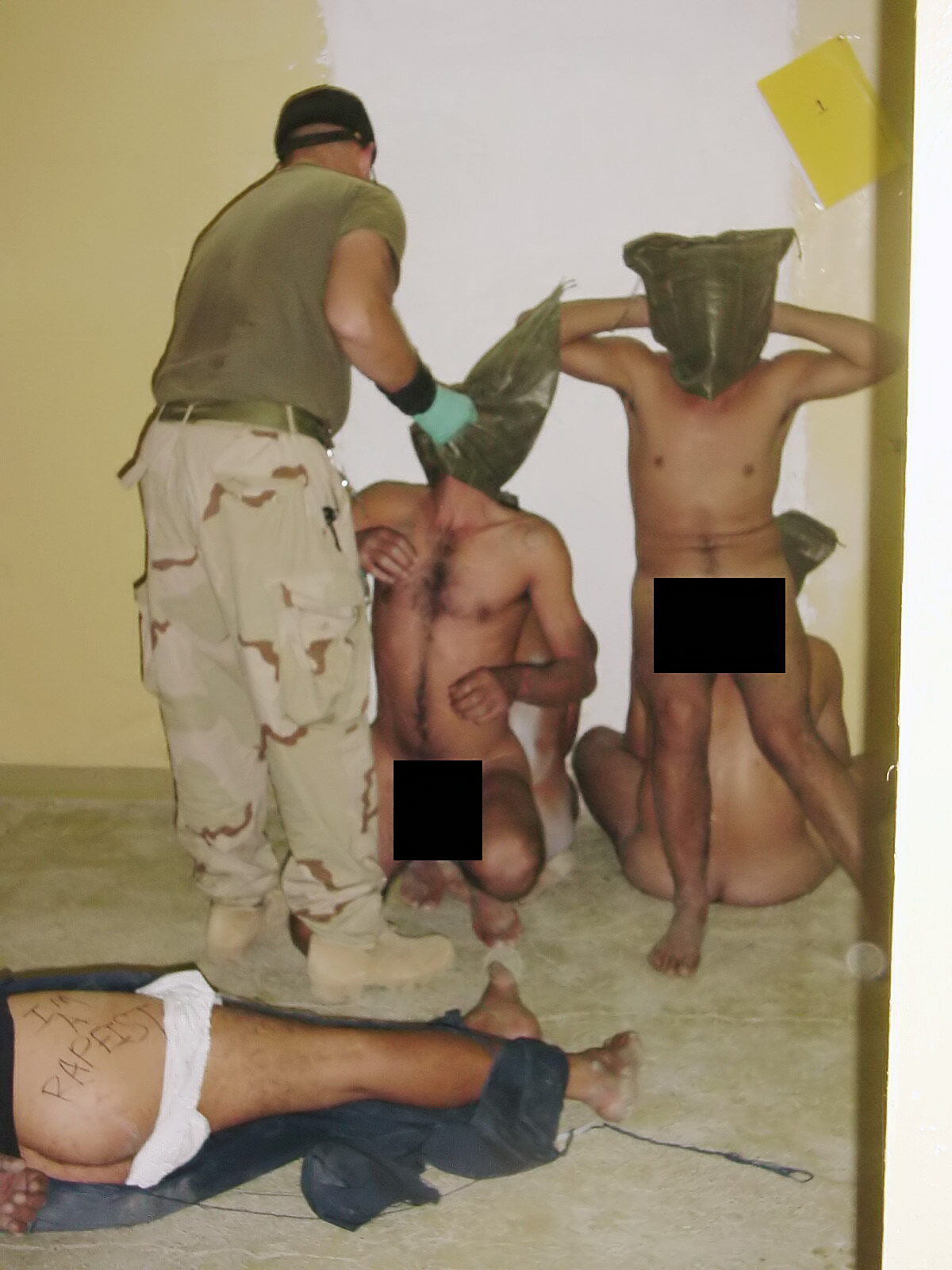 Abu Ghraib 39. The detainees were brought into the Tier 1 of the Hard Site for their involvement in a riot. The seven detainees were flex-cuffed and thrown on the floor. CPL GRANER is in the process of having the detainee stand up to sit on the back of another detainee. [Detainee name deleted] is detainee with writing on leg. SOLDIER: CPL GRANER. U.S. Army / Criminal Investigation Command (CID). Seized by the U.S. Government.